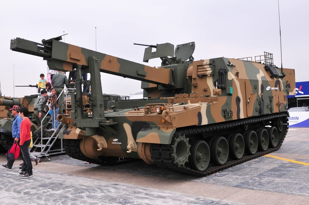 K10 ARV of the ROK Armed Forces